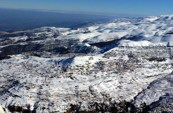 Aerial photograph of Ehden — a town in North Lebanon. Located on the southwestern slopes of Mount Makmal, in the Mount Lebanon Range.